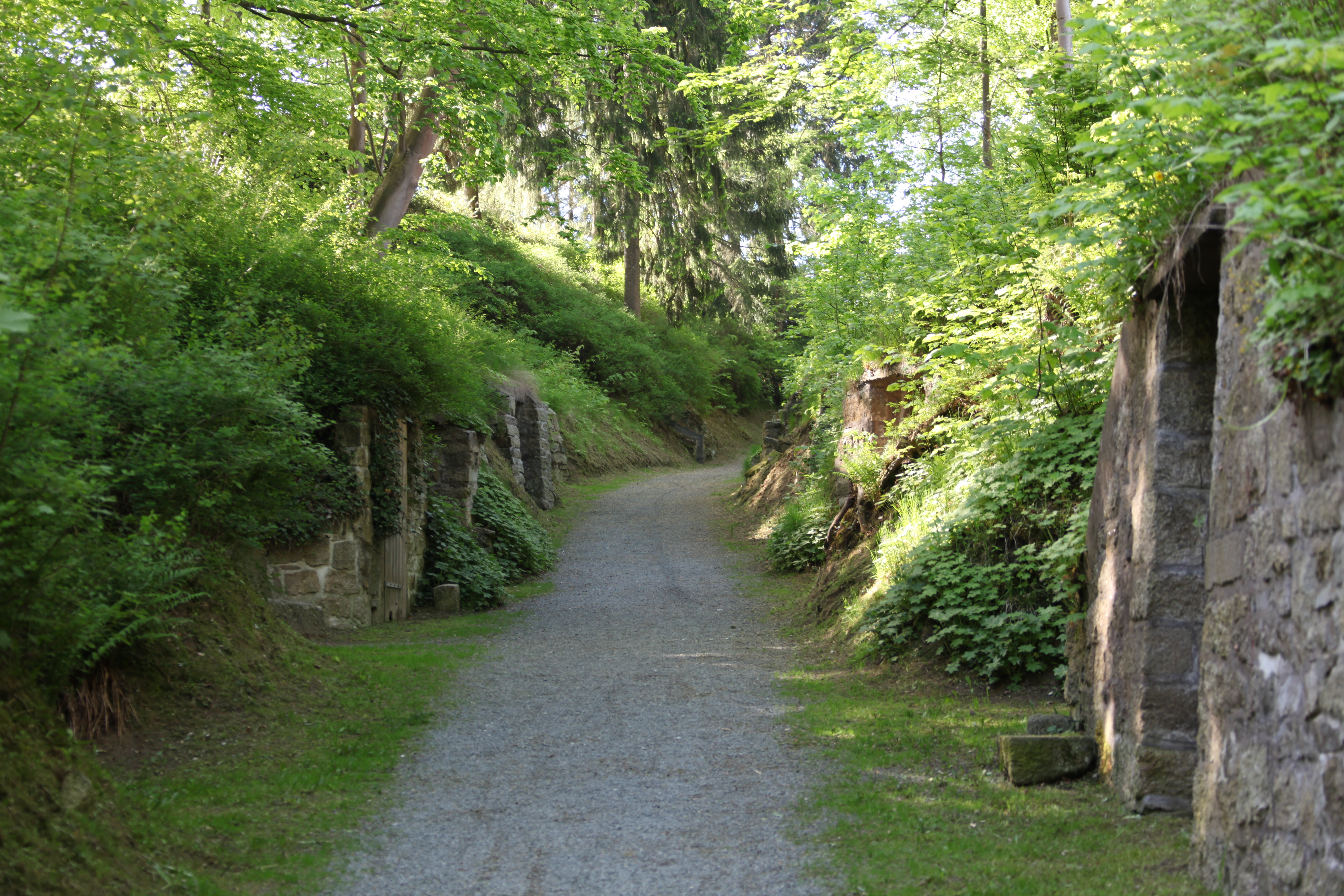 Sunken lane in Münchberg, Germany, with historic underground cellars in natural rock